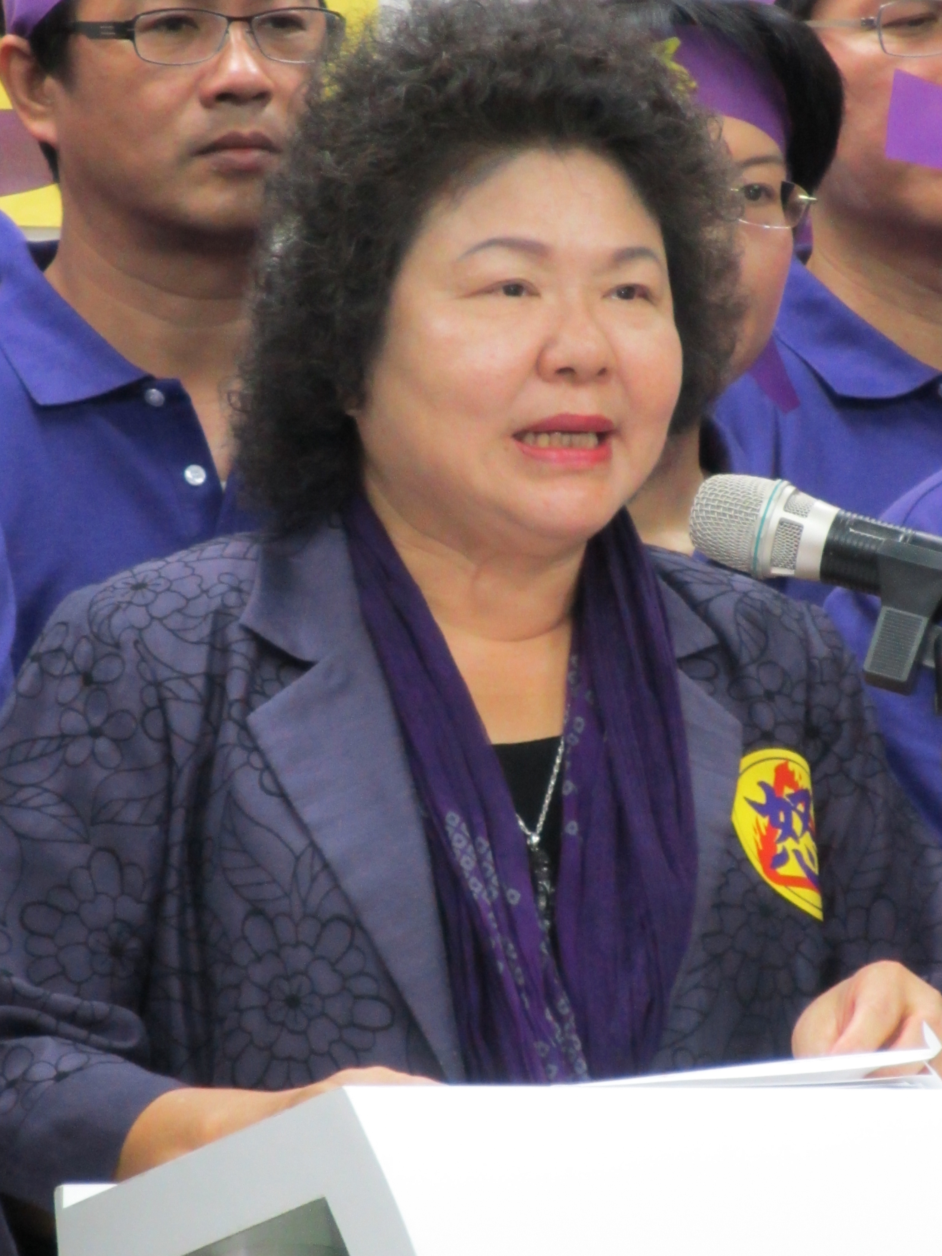 Chen Chu.